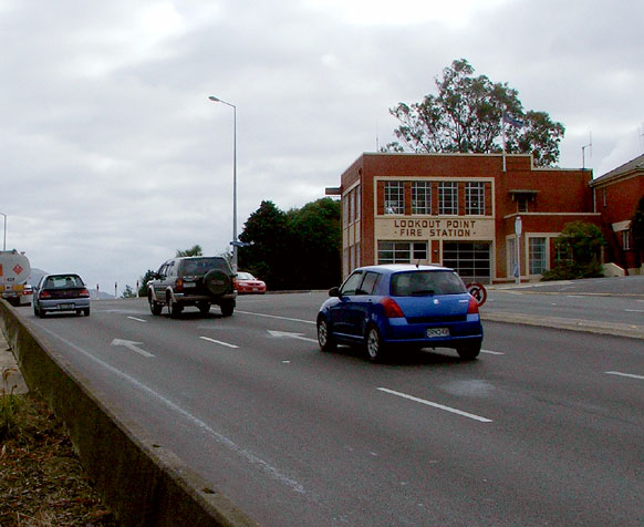 Cars sweep southwest past the Lookout Point Fire Station at the start of the Dunedin Southern Motorway, New Zealand. Photograph by James Dignan (User:Grutness), March 22, 2009.